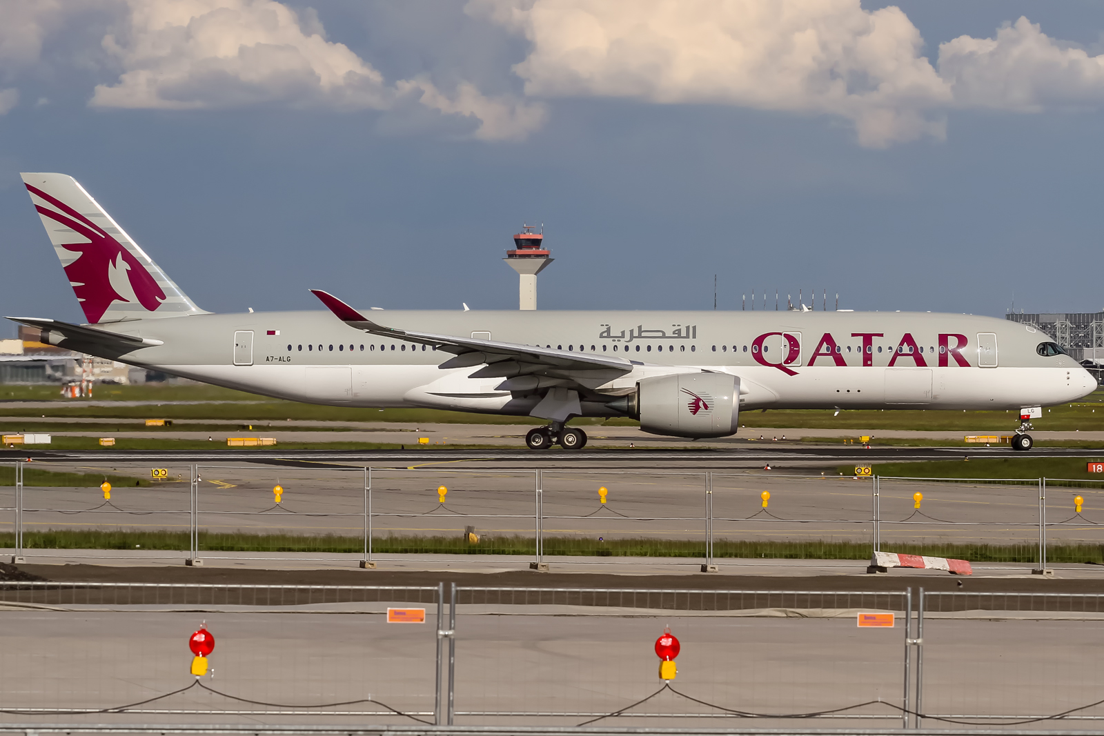 A7-ALG Qatar Airways Airbus A350-941 lining up on Rwy 18 for departure to Dohar (DOH / OTHH) @ Frankfurt - Rhein-Main International (FRA / EDDF) / 13.05.2017